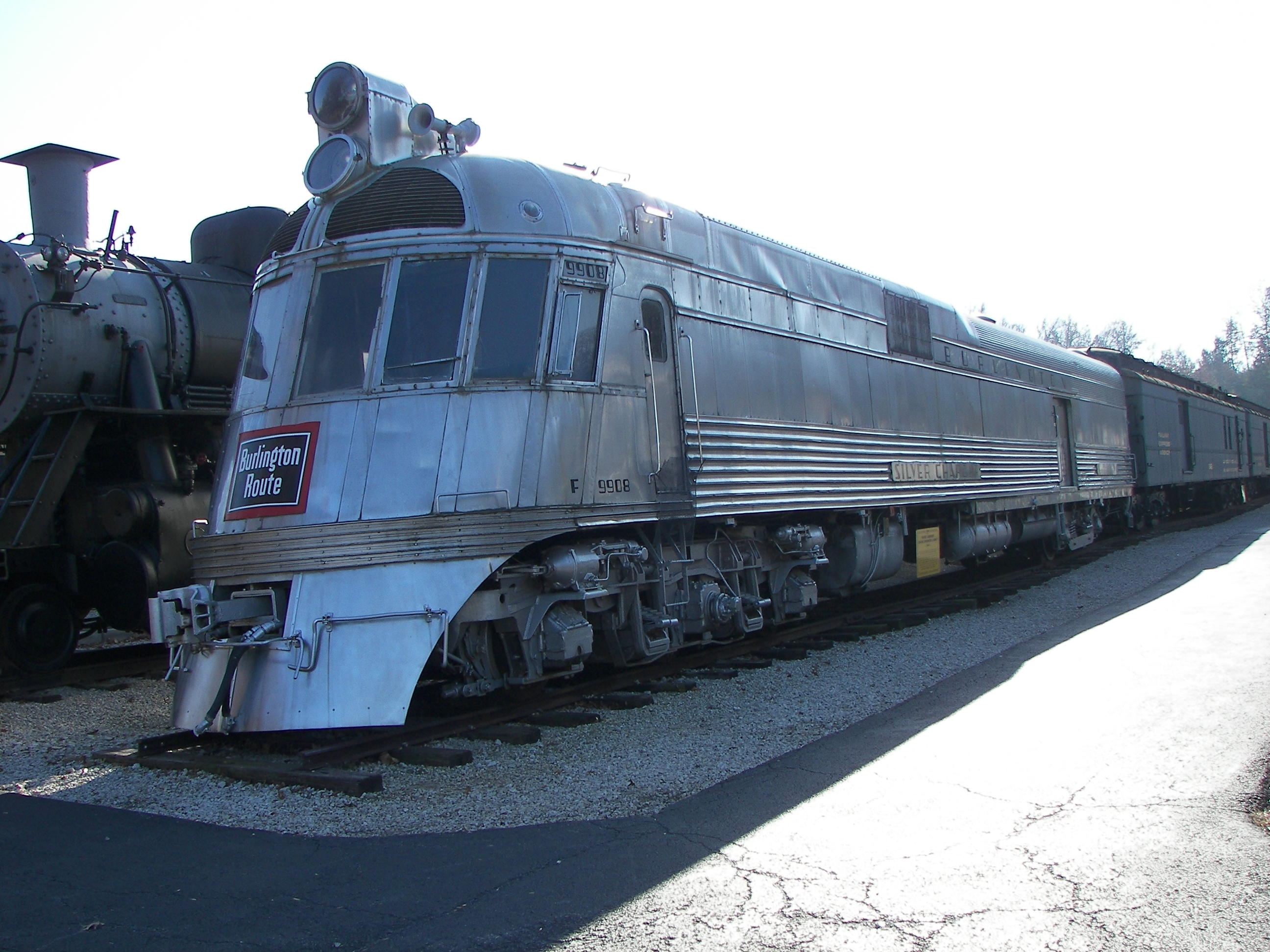 The Silver Charger, power car of the General Pershing Zephyr train. Powertrain by EMD; bodywork by Budd. Located at the Museum of Transportation in St. Louis, Missouri.